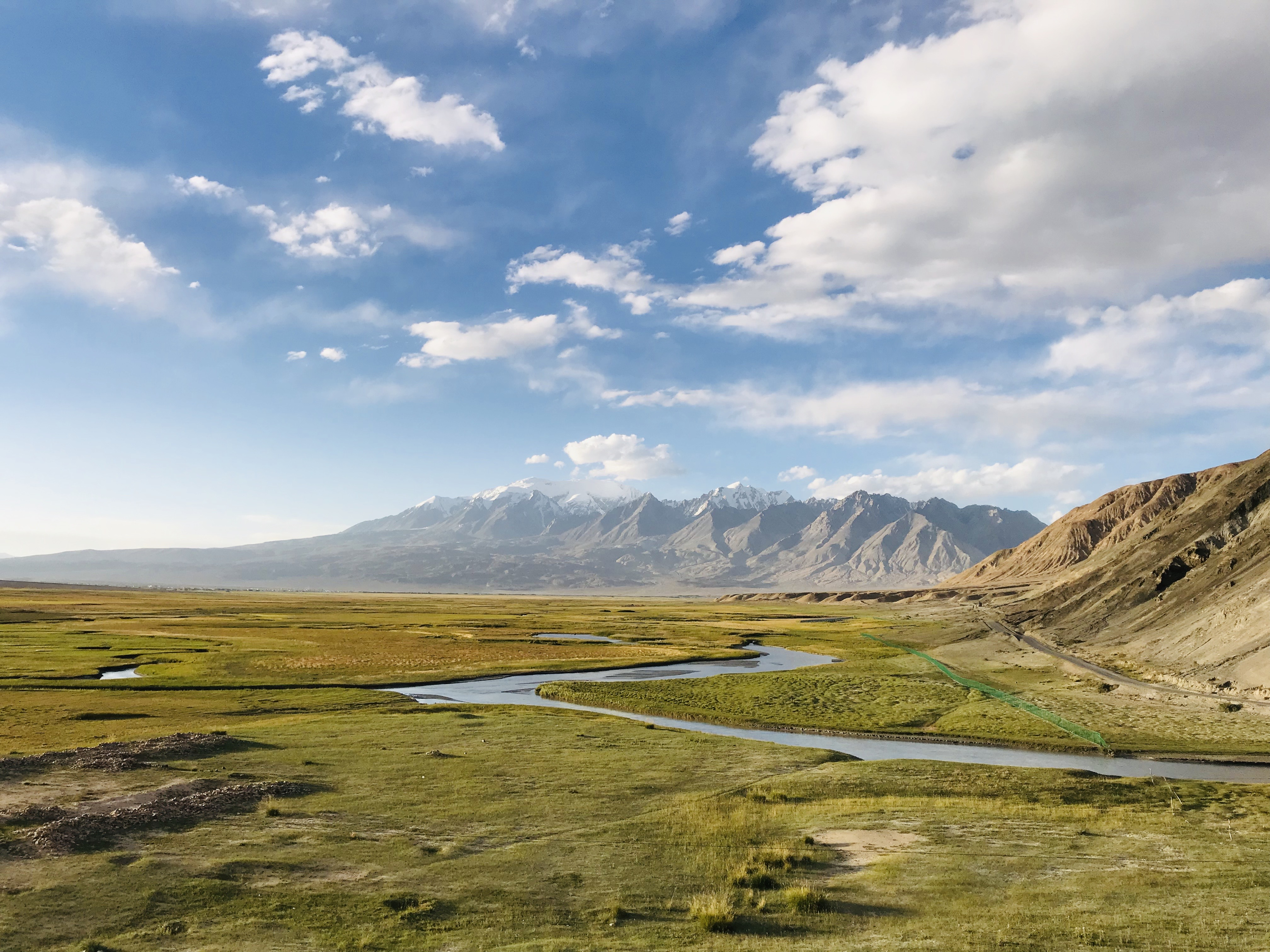 Mountain View in Tashkurgan, Kashgar